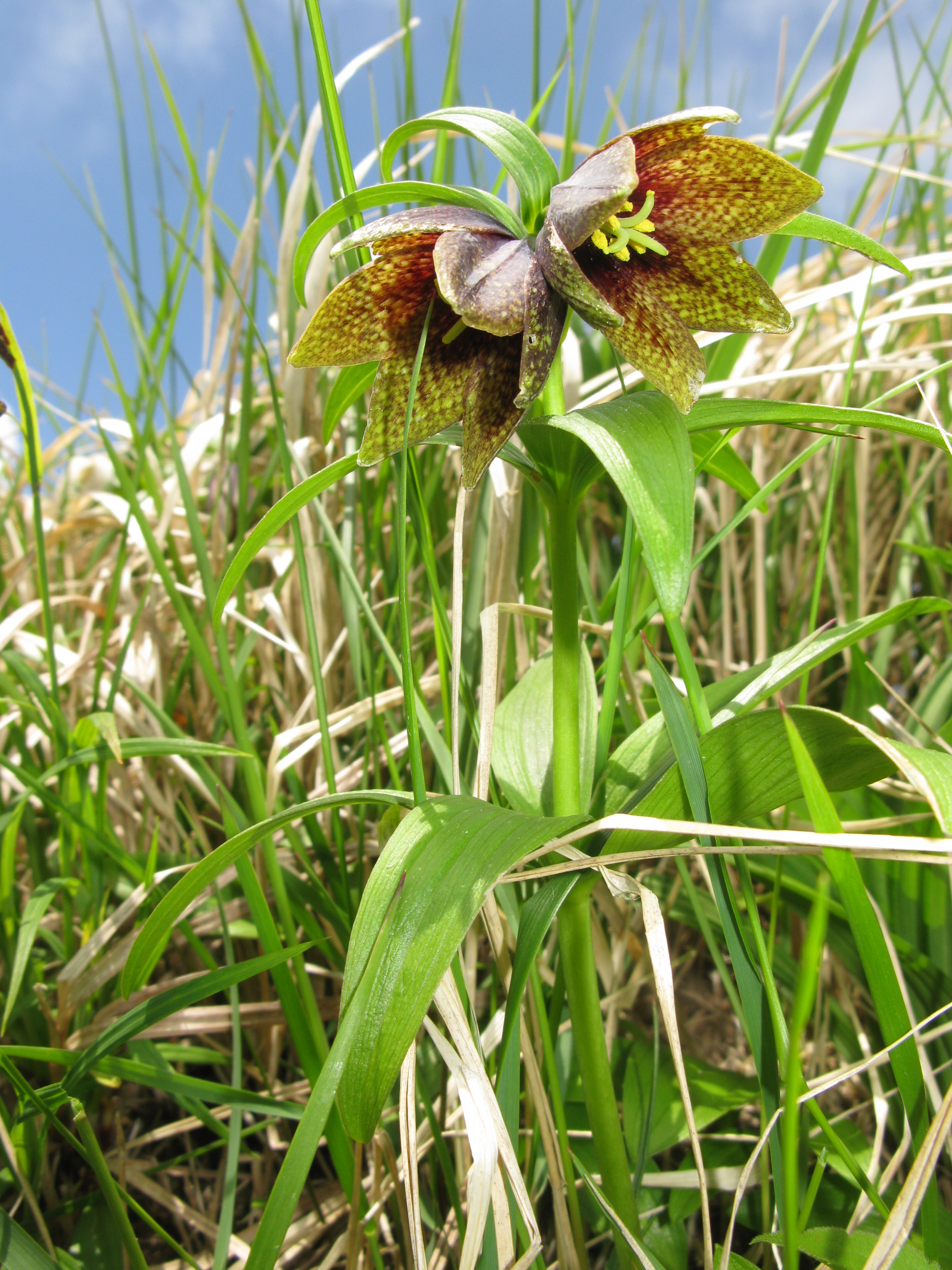 Fritillaria camtschatcensis var. keisukei, Mount Gassan, Yamagata pref., Japan